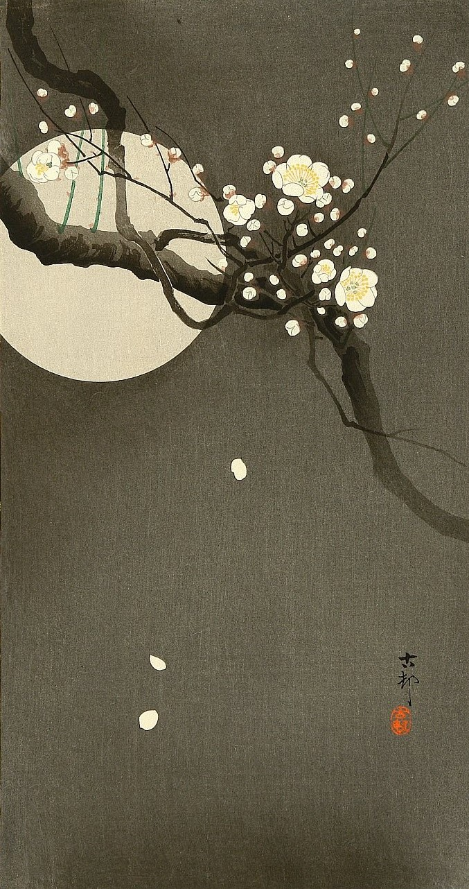 Ohara plum before moon